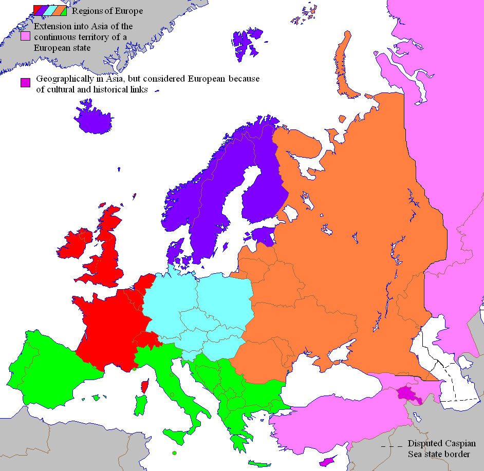 see also Image:europe_political_map.png for broader version covering more of Africa, Asia, etc.